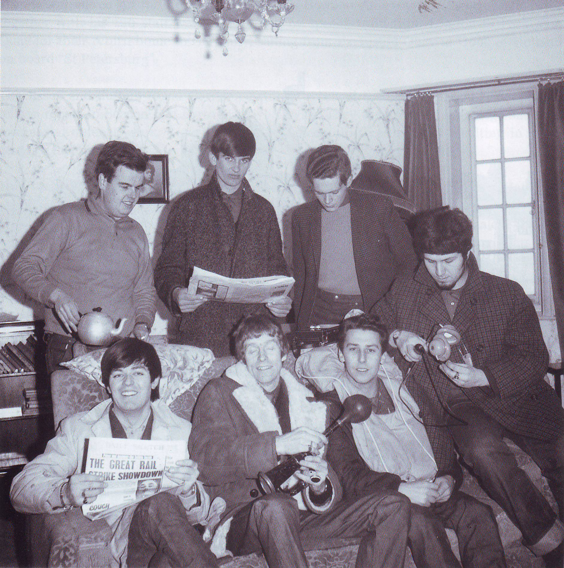 The Crew Of Radio Caroline Where Evacuated After A Severe Storm In January 1966. They Can Been Seen Here Relaxing At The Gables Hotel Dovercourt.